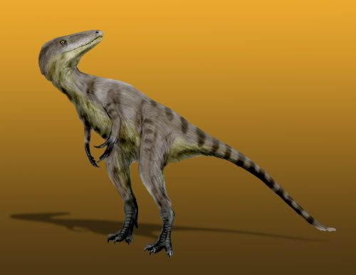 Xiongguanlong